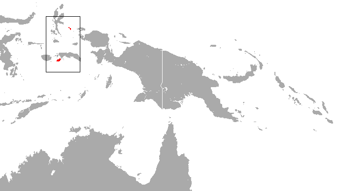 Silvery Flying Fox (Pteropus argentatus) range ITIS link: Pteropus argentatus Gray, 1844 (mirror) IUCN: Pteropus argentatus Gray, 1844 (old web site) (Data Deficient) Note: This species is listed as a synonym of Pteropus chrysoproctus by Simmons (2005), but IUCN follows K. Helgen (pers. comm.) considering it as a separate species